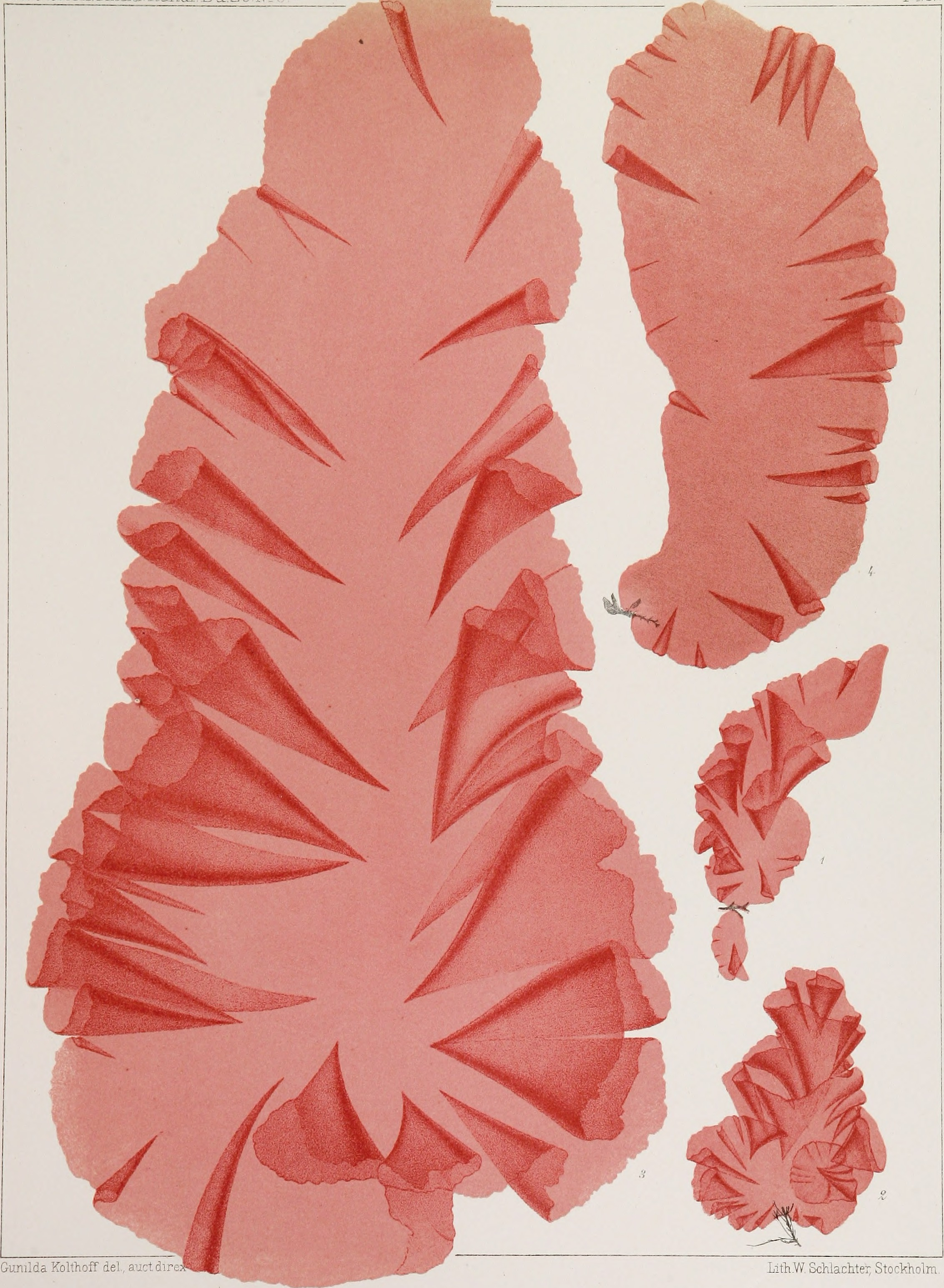 Title: The algae of the Arctic Sea, a survey of the species, together with an exposition of the general characters and the development of the flora Year: 1883 (1880s) Authors: Kjellman, F. R. (Frans Reinhold), 1846-1907 Subjects: Algae Publisher: Stockholm, Norstedt Text Appearing Before Image: ilVetensicAfcaa Haiidl,Bd.20N?.s PI 17 Text Appearing After Image: Gtmilda Kolthoff del, auctd LifhW ScWachter StockKolm 1-3, Diplodeima amplissimum. k Porphyra abyssicola